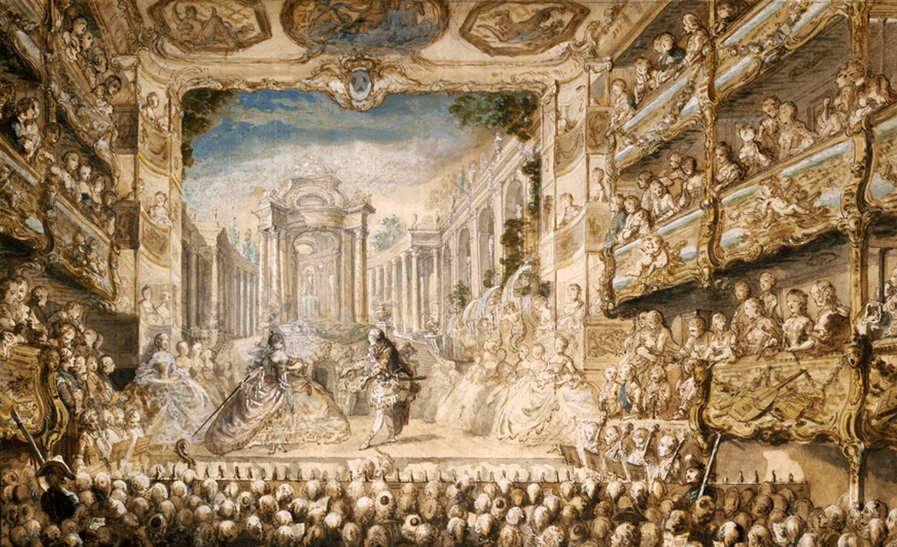 Lully's Opera "Armide" Performed at the Palais-Royal, 1761. Pen, watercolor and gouache over graphite pencil. Museum of Fine Arts, Boston